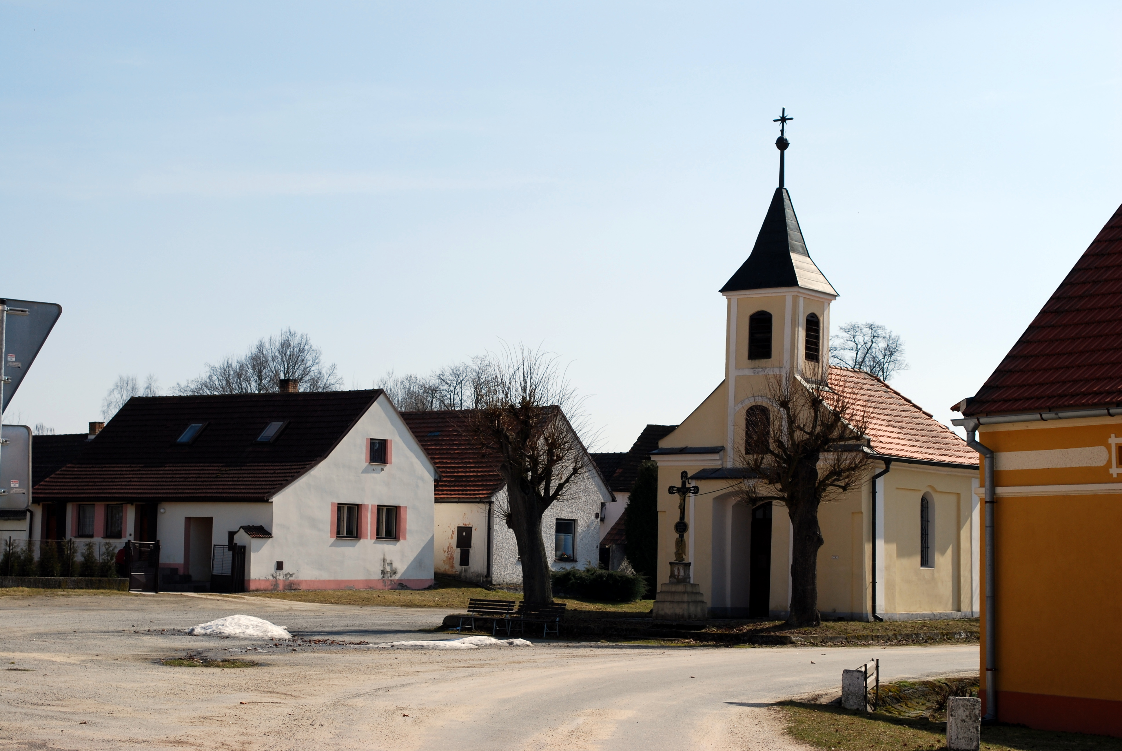 Ponědrážka village in Jindřichův Hradec District, Czech republic. Chapel This photograph was taken within the scope of the 'Czech Municipalities Photographs' grant.